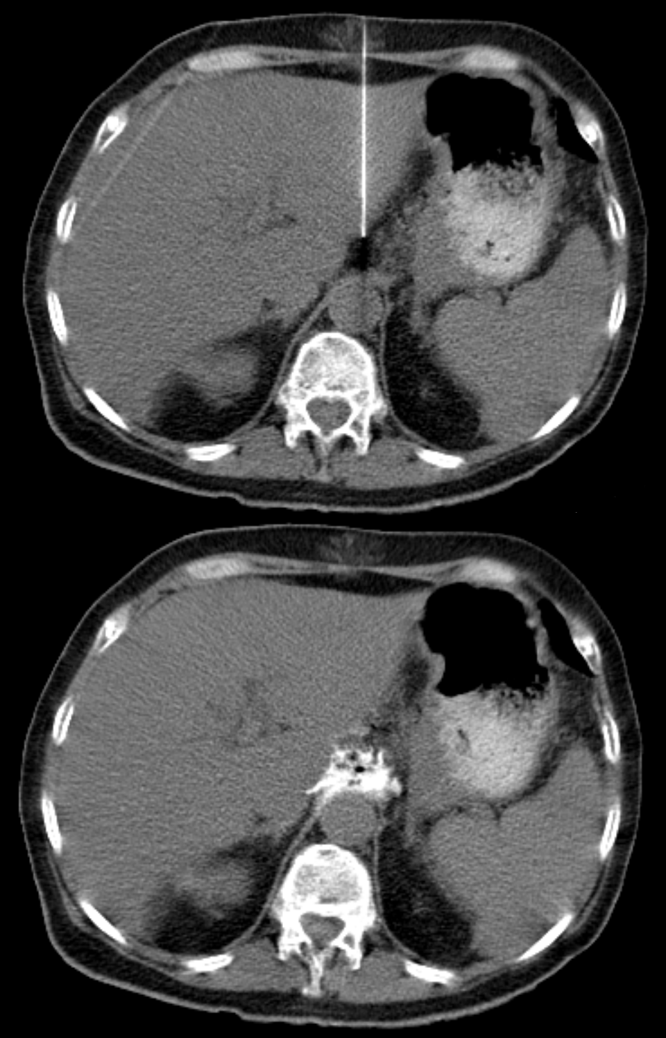 Celiac Plexus Blockade in computertomography in a patient suffering from back-pain caused by pancreatic cancer.